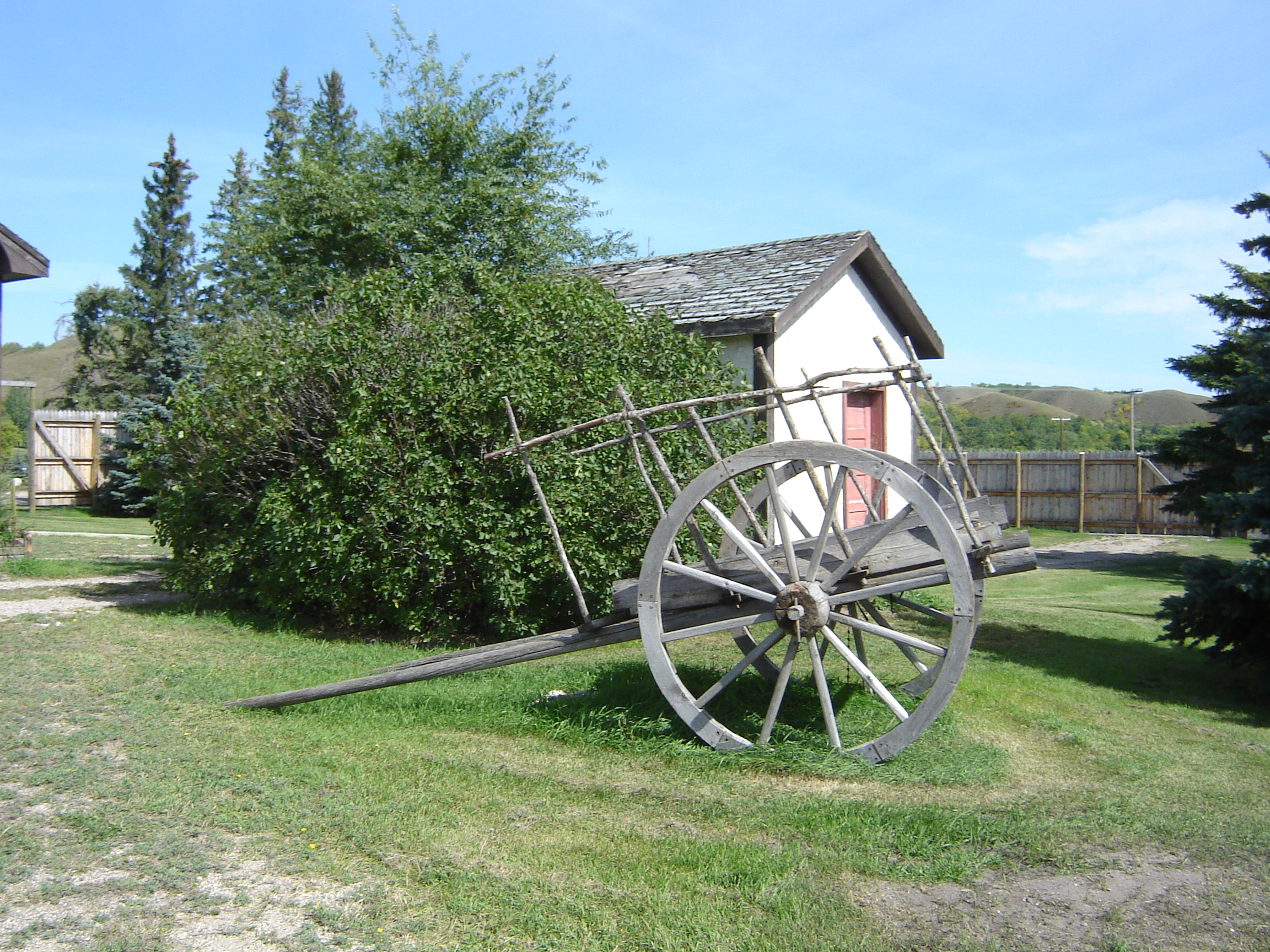 Red River Cart at RE-built fort at Fort Qu'Appelle Saskatchewan